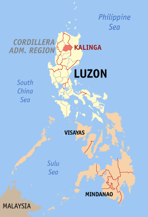 Map of the Philippines showing the location of Kalinga